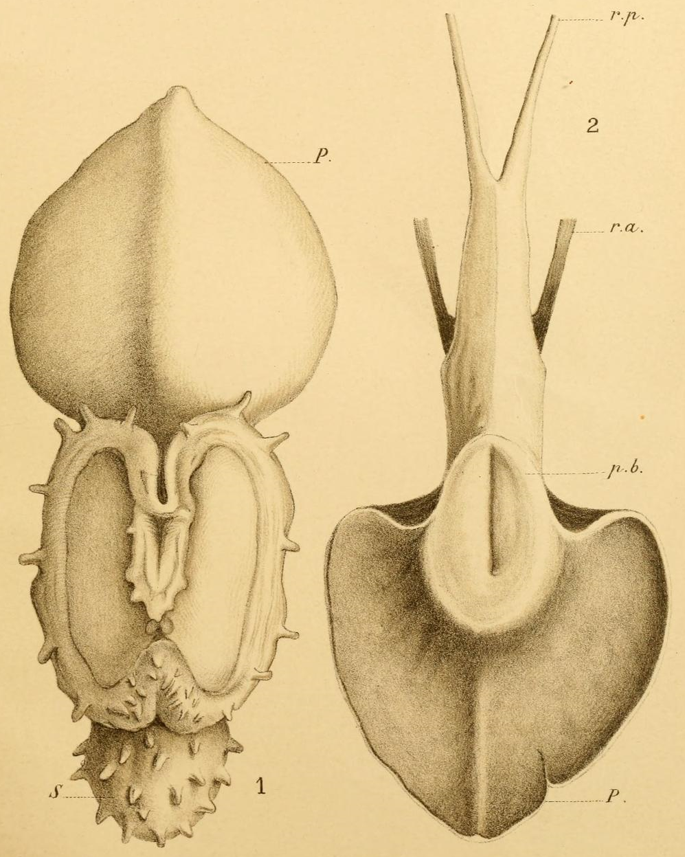 Devonia perrieri (Malard, 1904), Montacutidae, Bivalvia, Mollusca, from Anthony (1916: pl. 7, figs.1,2)